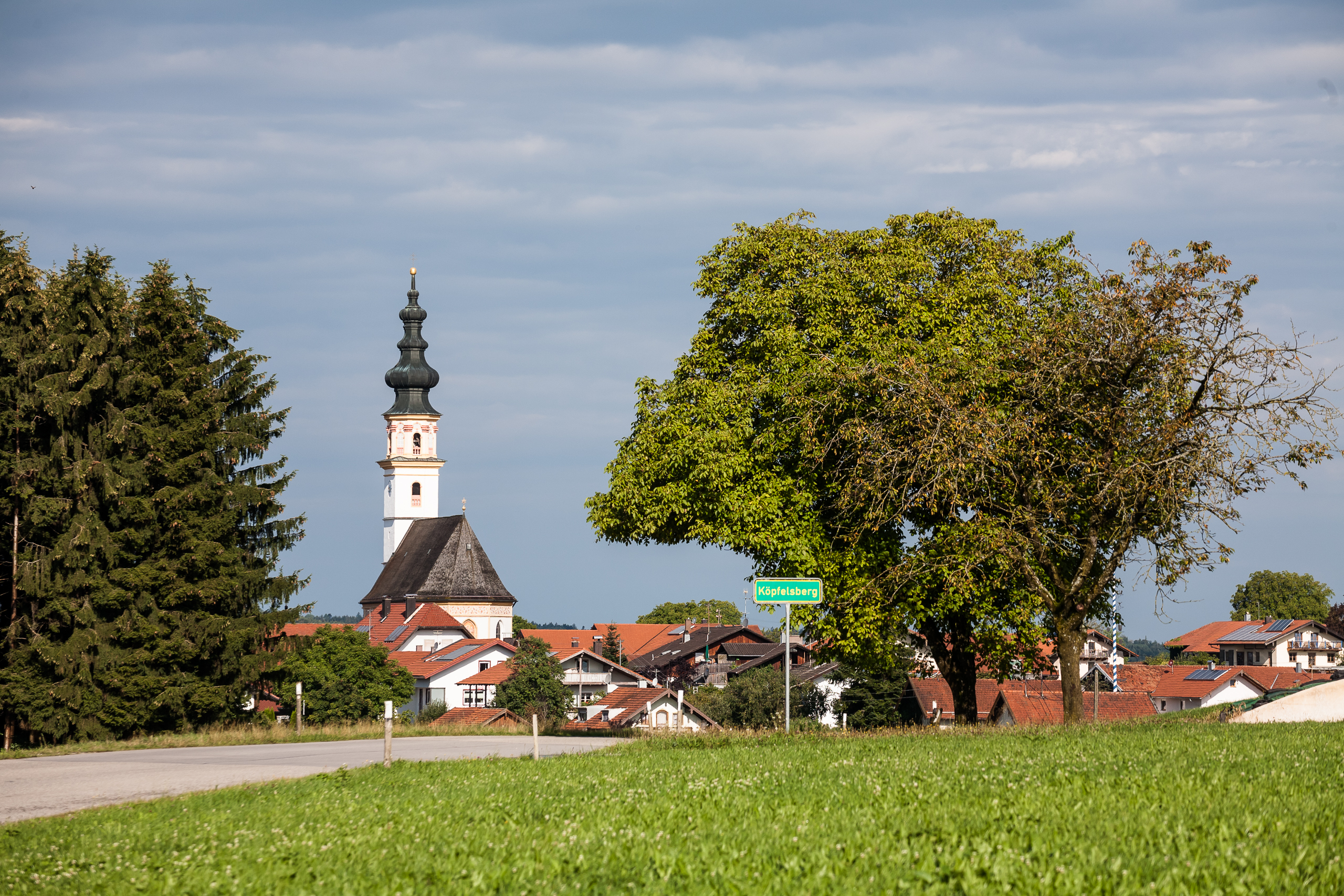 This is a photograph of an architectural monument.